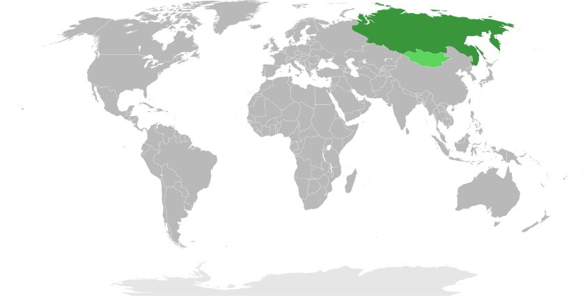 North Asia